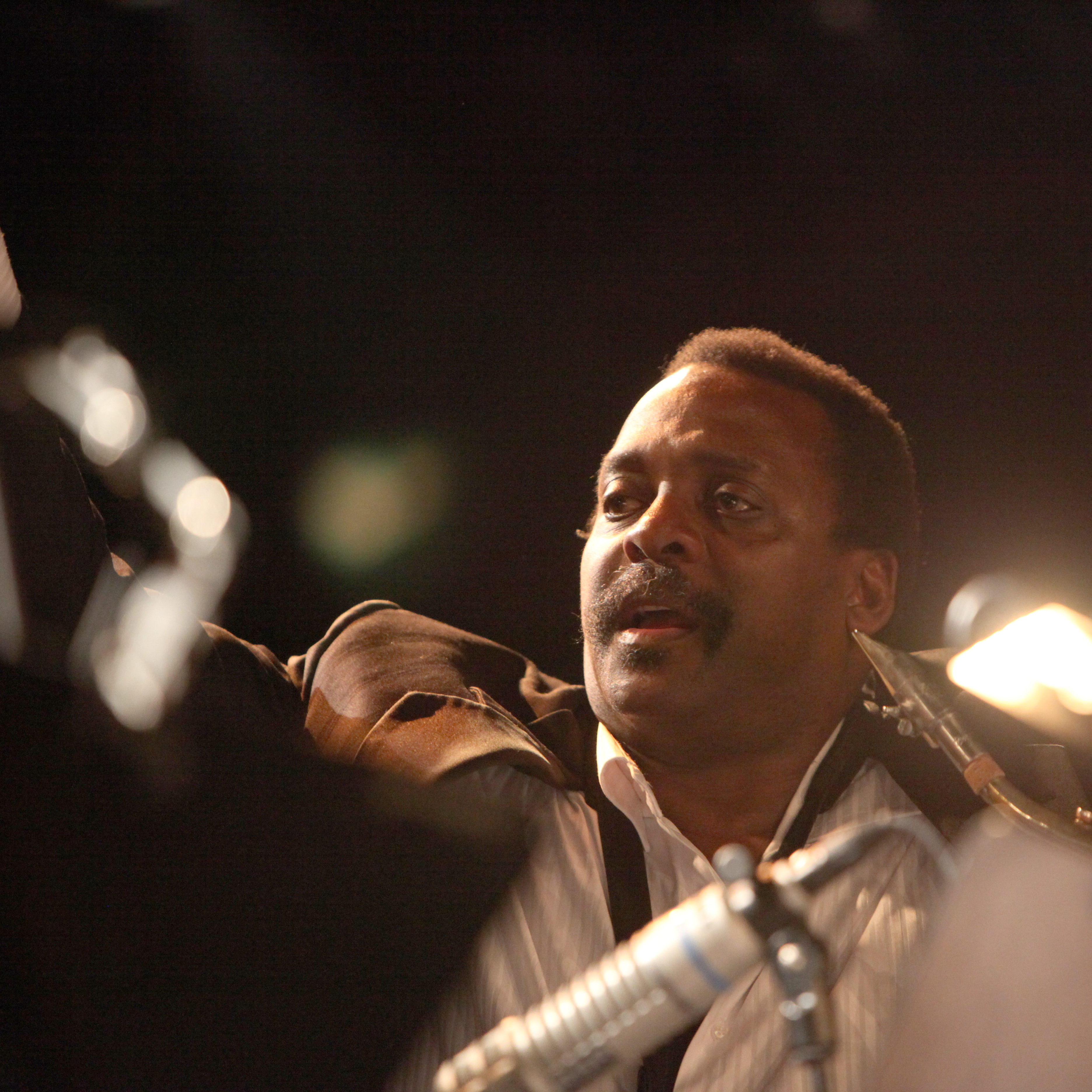 David Murray playing at Cully Jazz Festival 2011